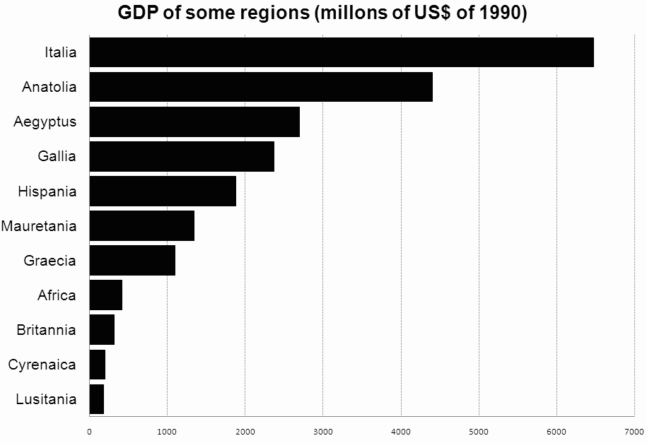 Gross Domestic Product of some region as estimated for 1 AD by Angus Maddison, World Population, GDP and Per Capita GDP, 1-2010 AD: Africa (Carthago, actual Tunisia) Cyrenaica (actual Libya) Lusitania (actual Portugal) Mauretania (actual Morocco and Algeria) Anatolia (actual Turkey)